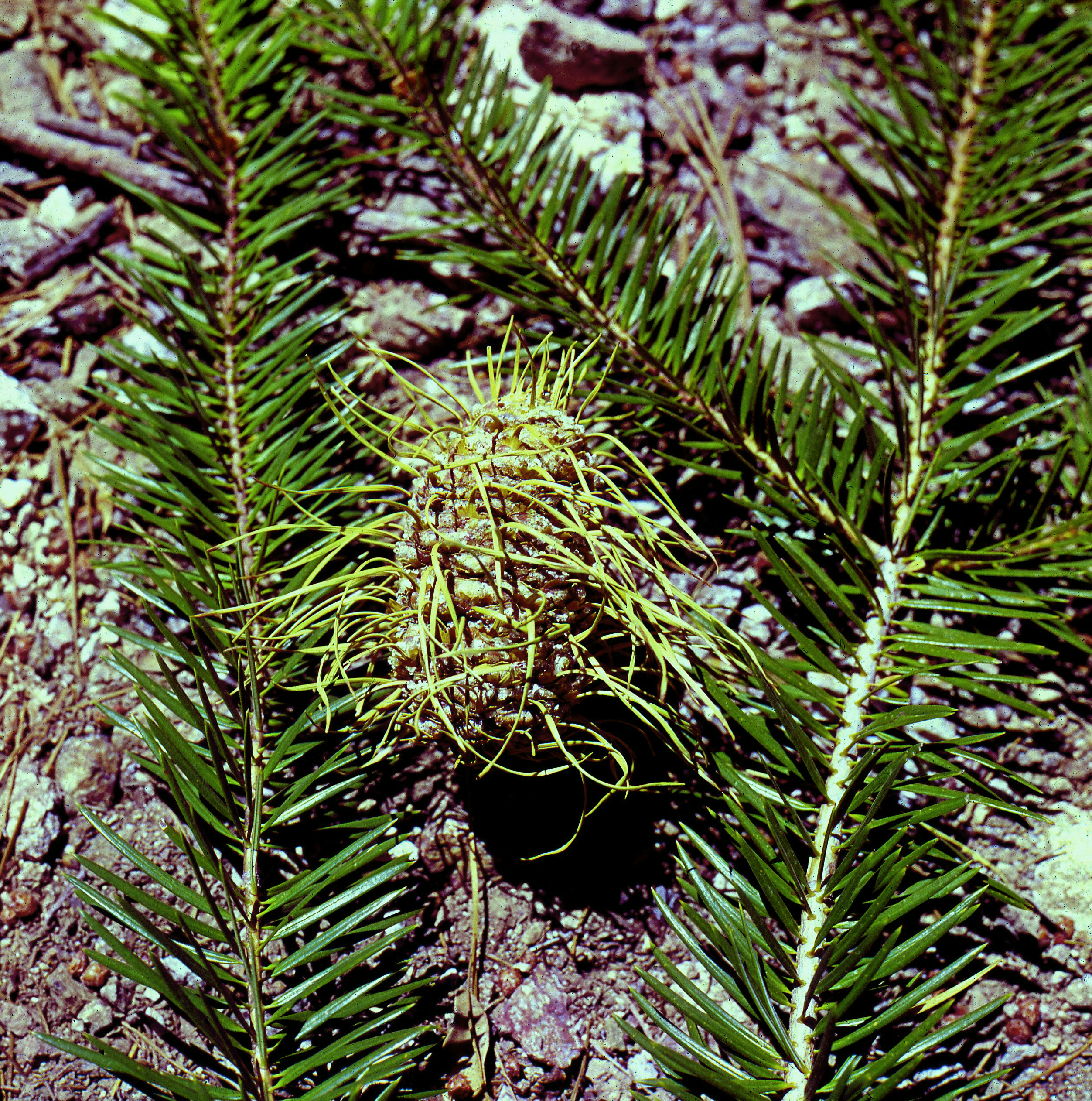 Abies bracteata foliage and cone, Cone Peak, California, 1965. A narrow endemic of San Luis Obispo and Monterey Counties. Has that strange cone, and a remarkable habit, you can recognize it from far away by the long, narrow crown. Hasselblad camera.